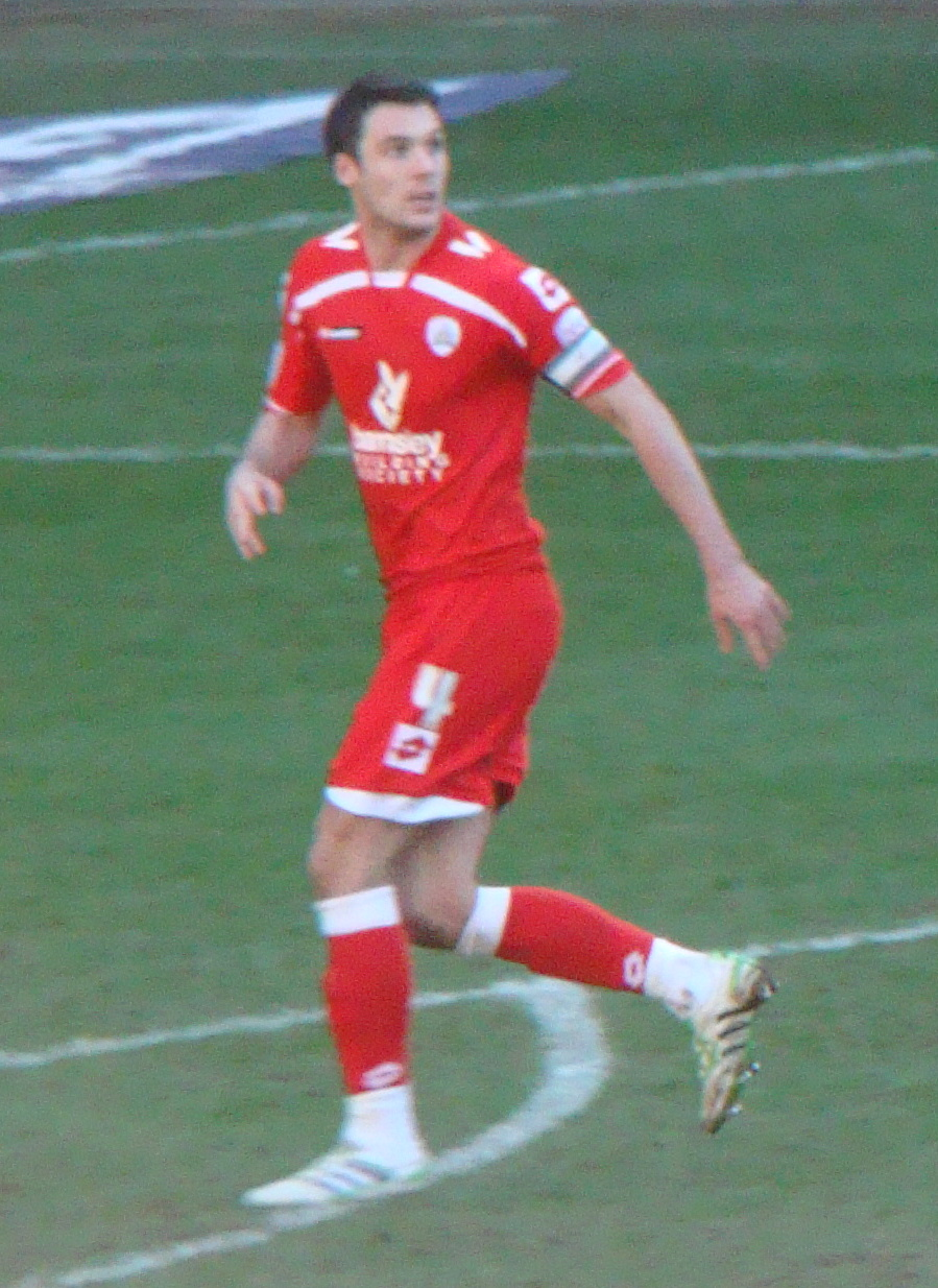 Jason Shackell